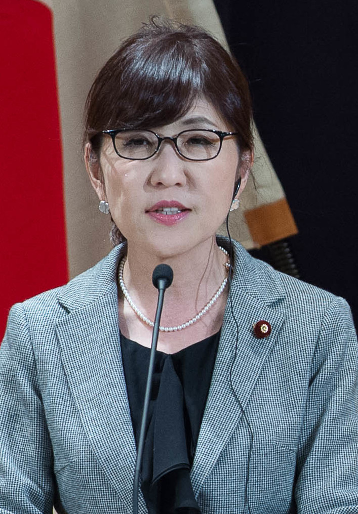 Japanese Minister of Defense Tomomi Inada speaks during a joing press conference with Defense Secretary Jim Mattis following a Ministerial meeting between the two countries at the Defense Ministry in Tokyo, Japan, Feb. 4, 2017. (DOD photo by Army Sgt. Amber I. Smith)